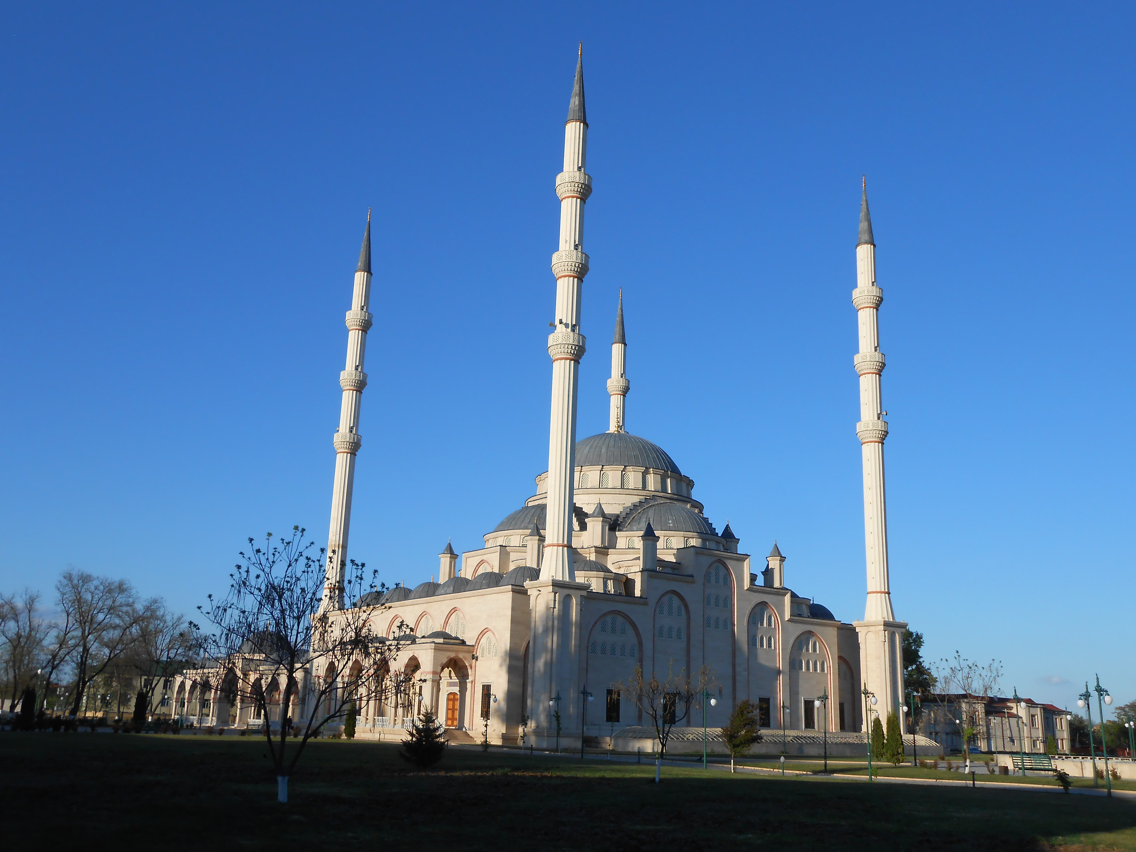 Mosque in Gudermes